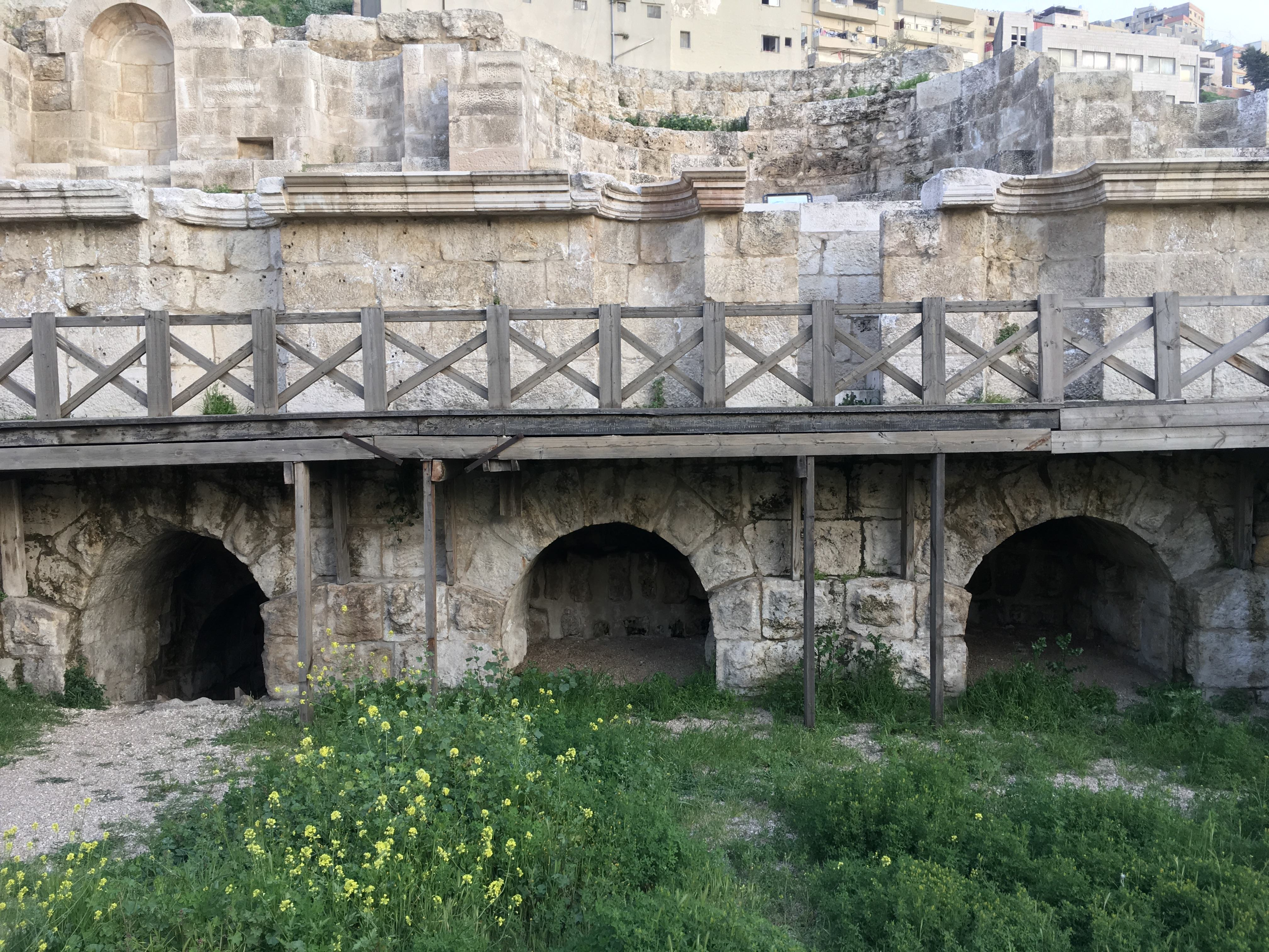 Amman Nimphaeum lower water arch